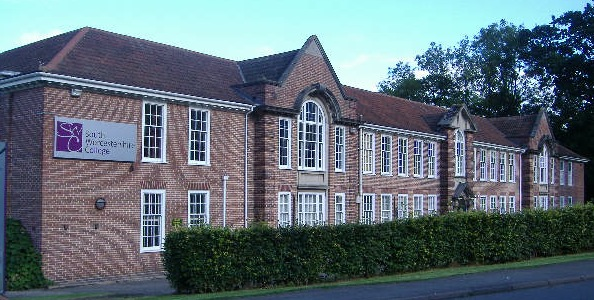 South Worcestershire College, main building. Author: self, Wikipedia User:Kudpung